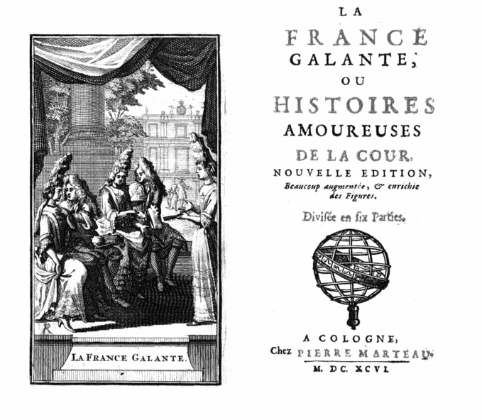 Titlepage of La France Galante (Cologne: Pierre Marteau, 1696).